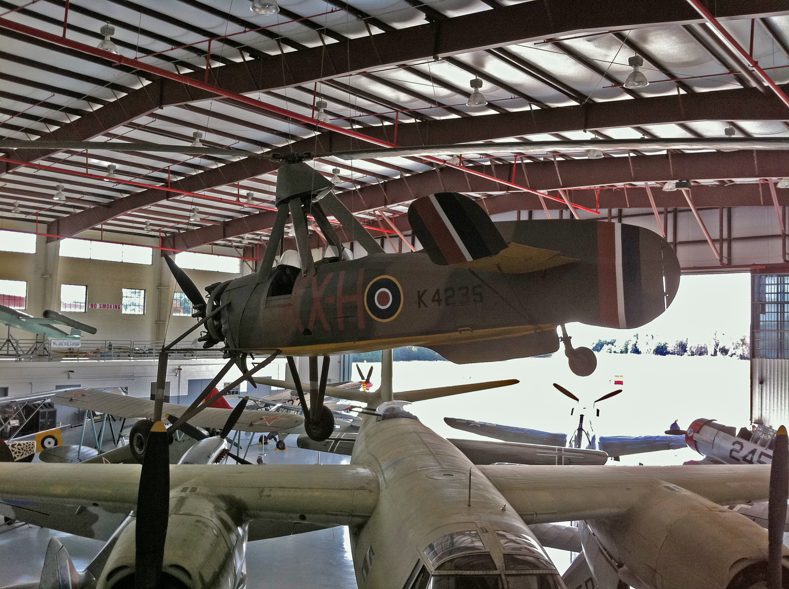 Cierva C.30 Rota autogiro (K4235), on display at Fantasy of Flight, Florida